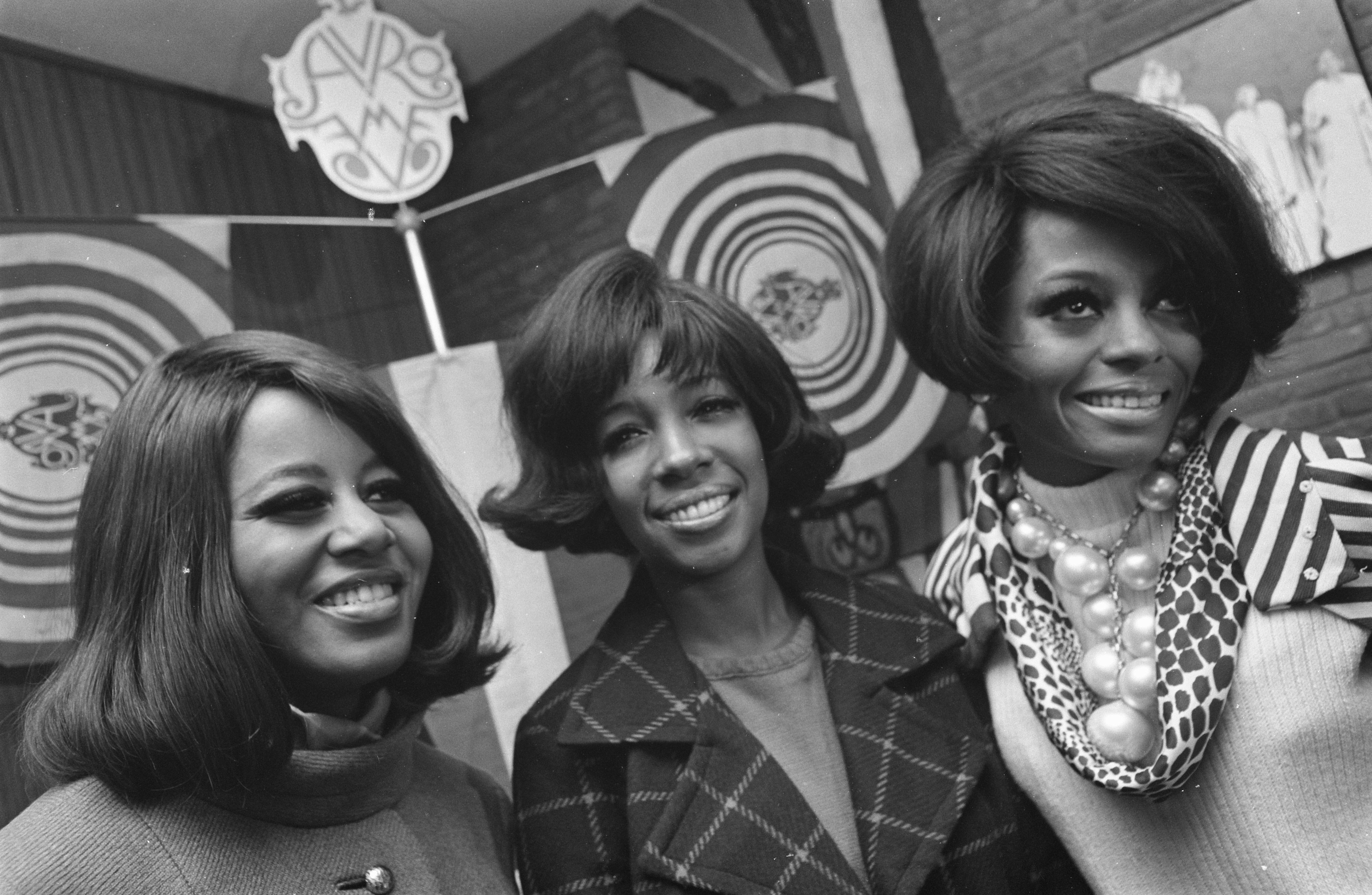 Cindy Birdsong, Mary Wilson & Diana Ross (The Supremes) at a press conference in the Hilton Hotel, Amsterdam, 15 Jan. 1968.